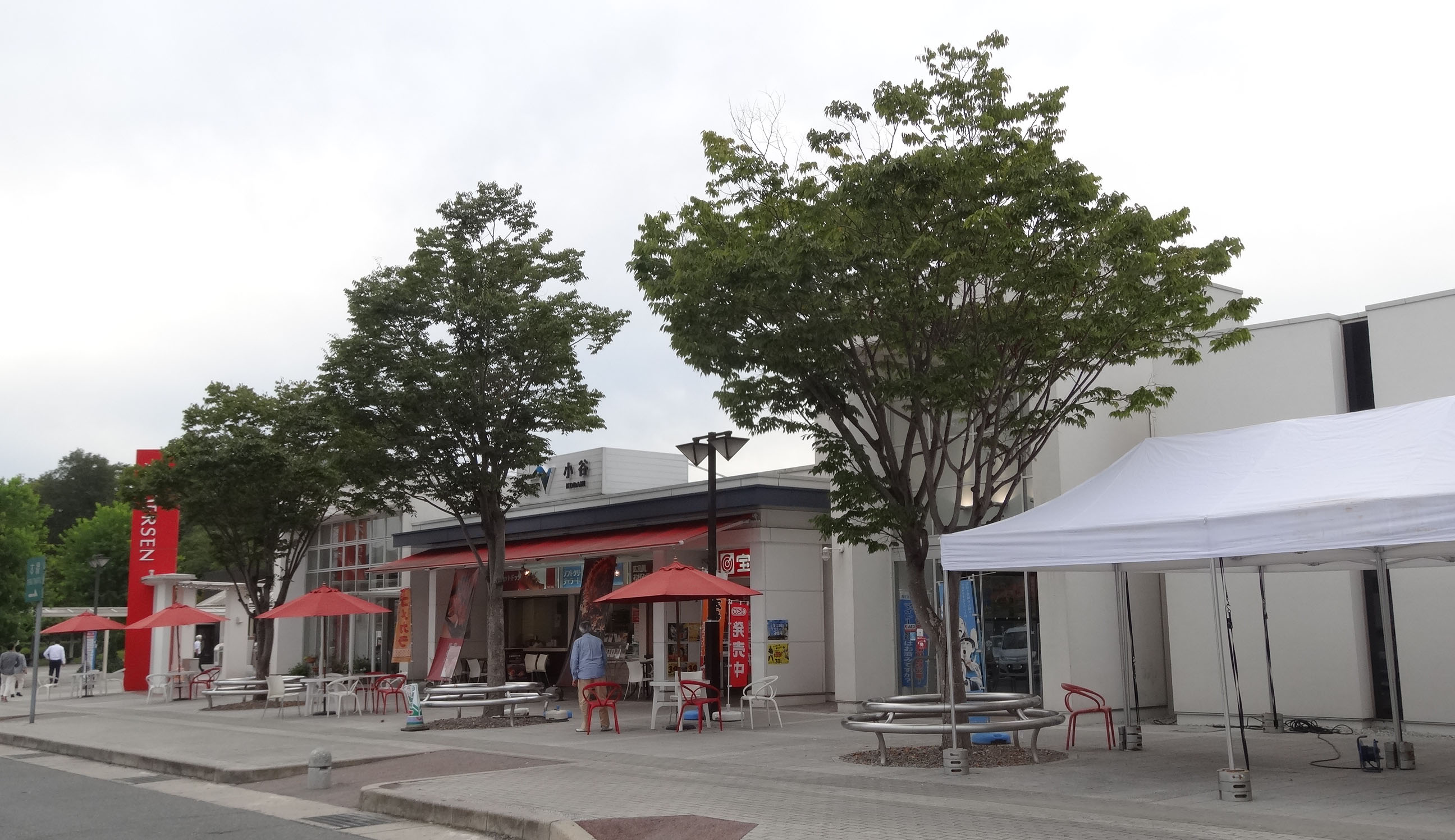 Sanyo Expressway Kodani Servicearea upside